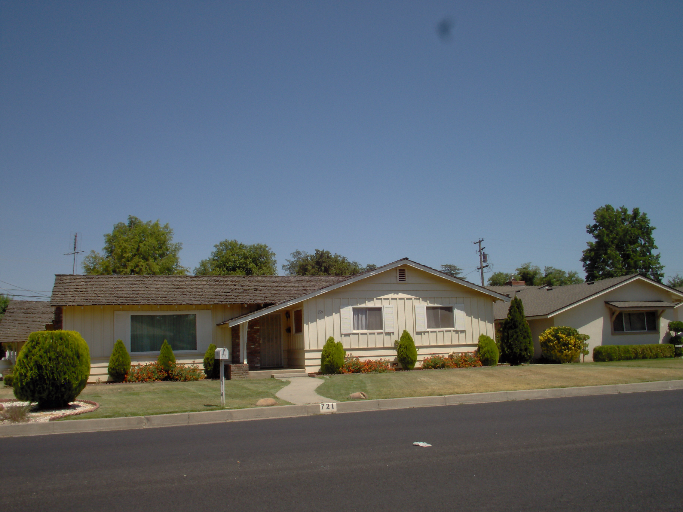 Early 1960s Ranch House. Note the extended roof tail by the front door, this rather common treatment on Ranch Houses of that era exaggerates the long, low roofline. Also notice the board and batten siding and picture window.